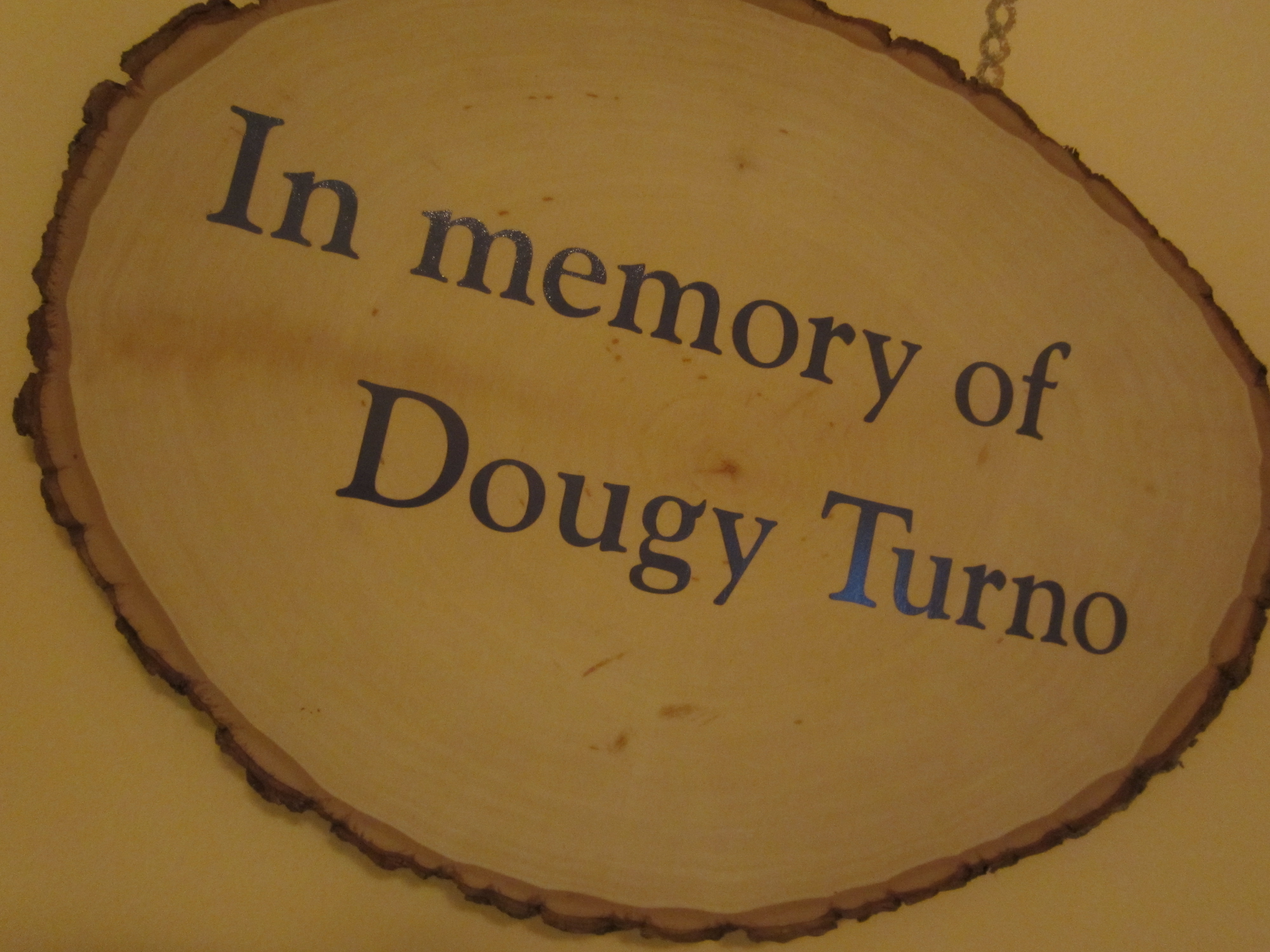 The Dougy Center, Portland, Oregon (2013)